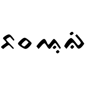 This is Lontara script. It's read "Basa Ugi" from local language that means 'Buginese Language' in English.